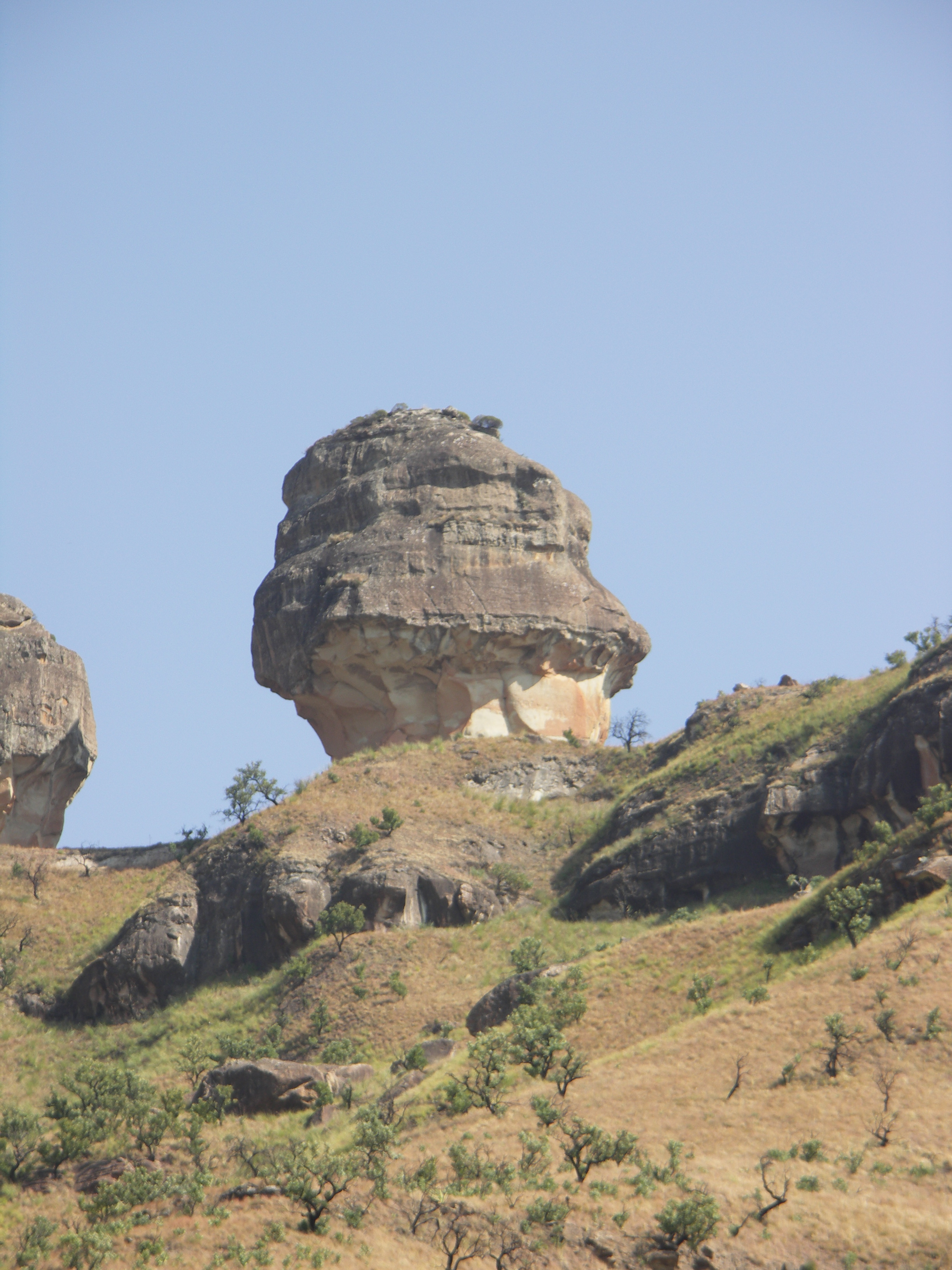 Policemen's Helmet along the Gorge Walk in the Royal Natal National Park